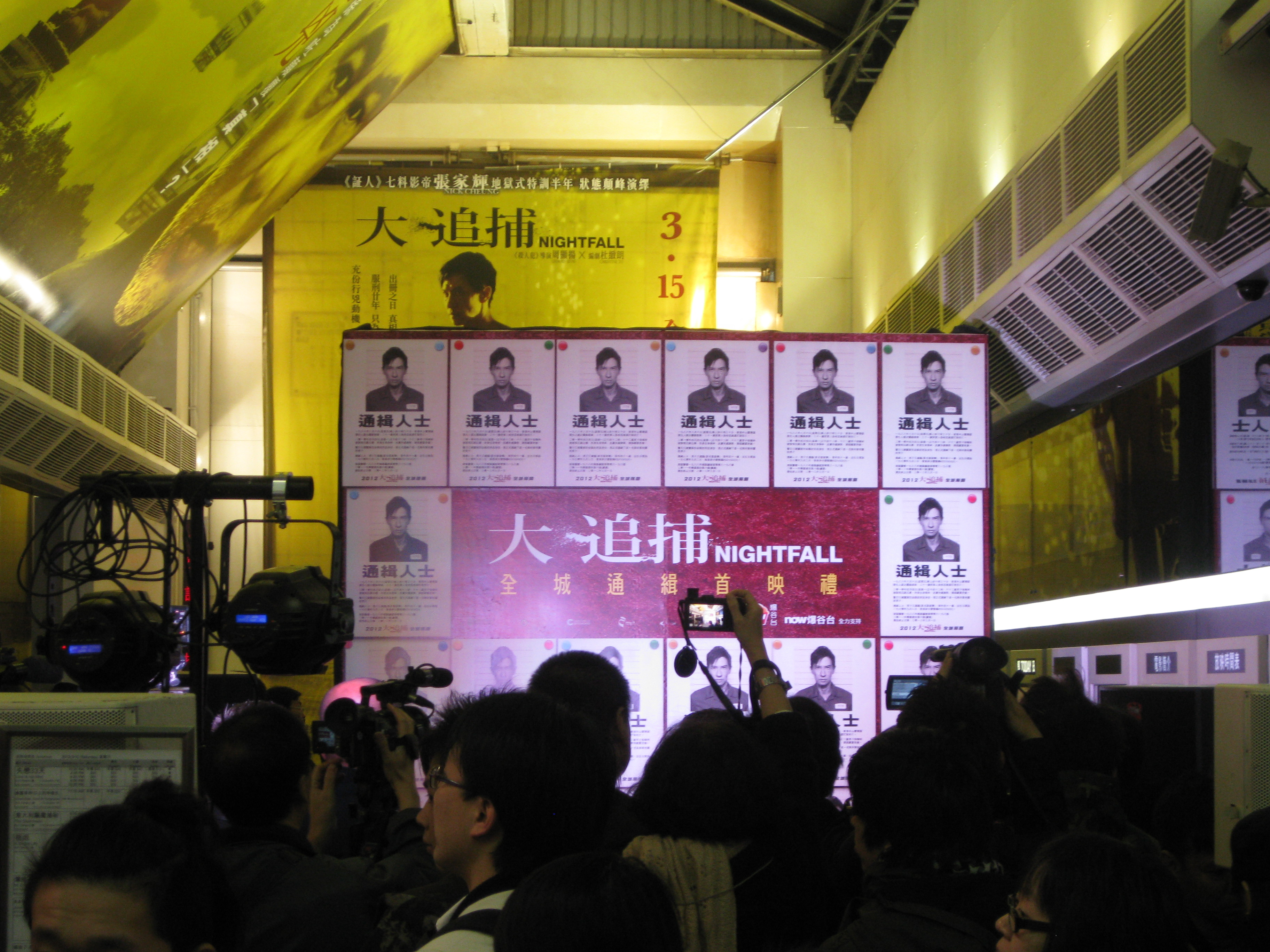 Nightfall Premier at MK Broadway Cinema